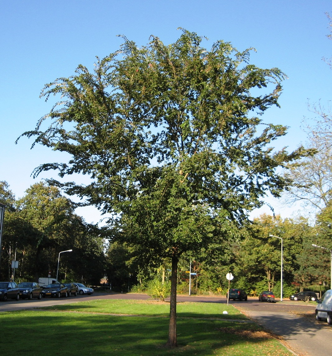 Photo taken by Ronnie Nijboer